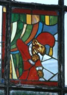 mr punch by Steve ignorant- photo by Graham Burnett (quercus robur). If re-used a credit would be appreciated but is not compulsory!